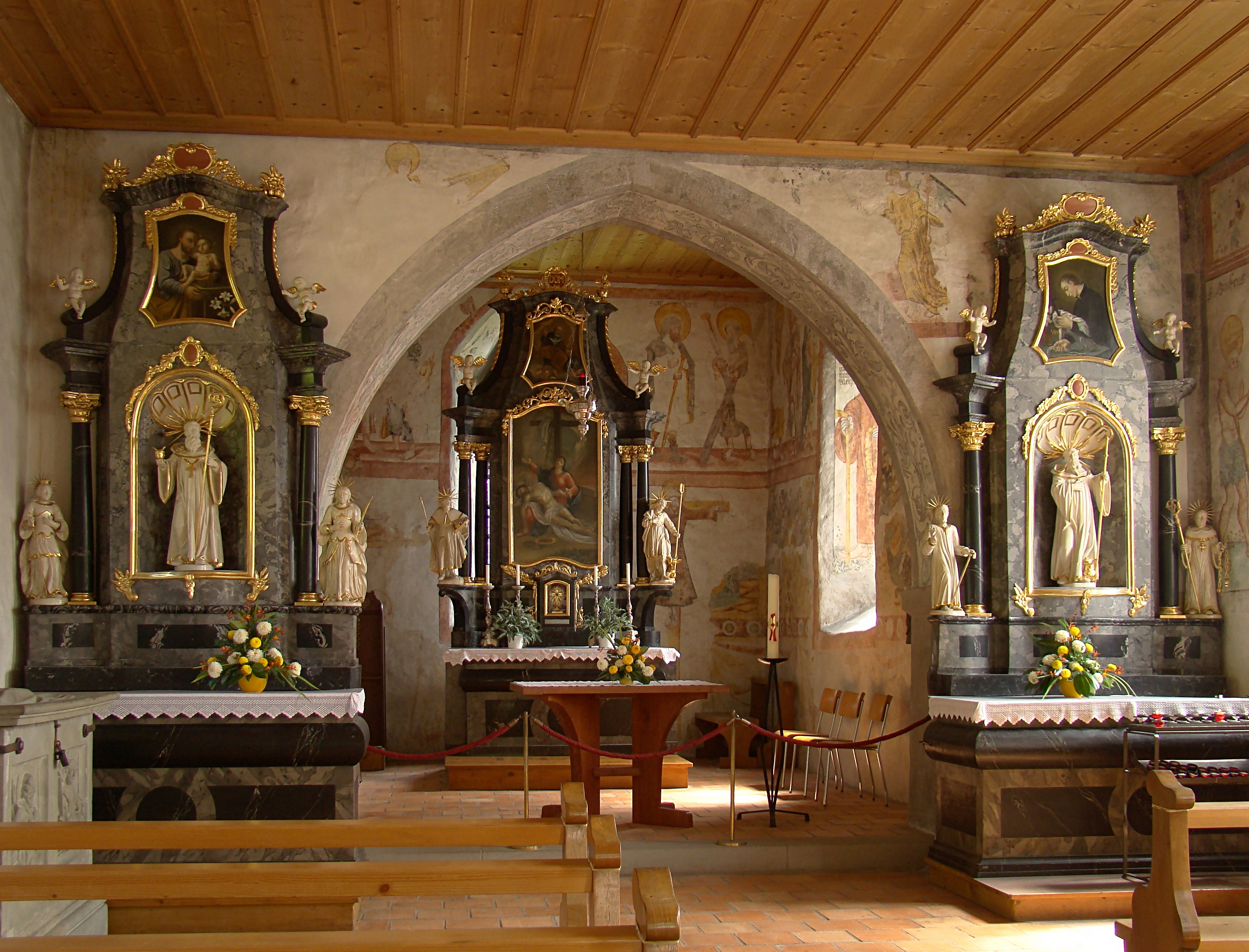 Ennetbürgen, Chapel of St. Jost, Choir